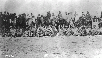 National Archives [#111-SC-87976] This image is held by the Still Picture Branch of the U.S. National Archives and Records Administration. The image identifier is 111-SC-87976. Information about ordering copies of photographs from the Still Picture Branch is available online at